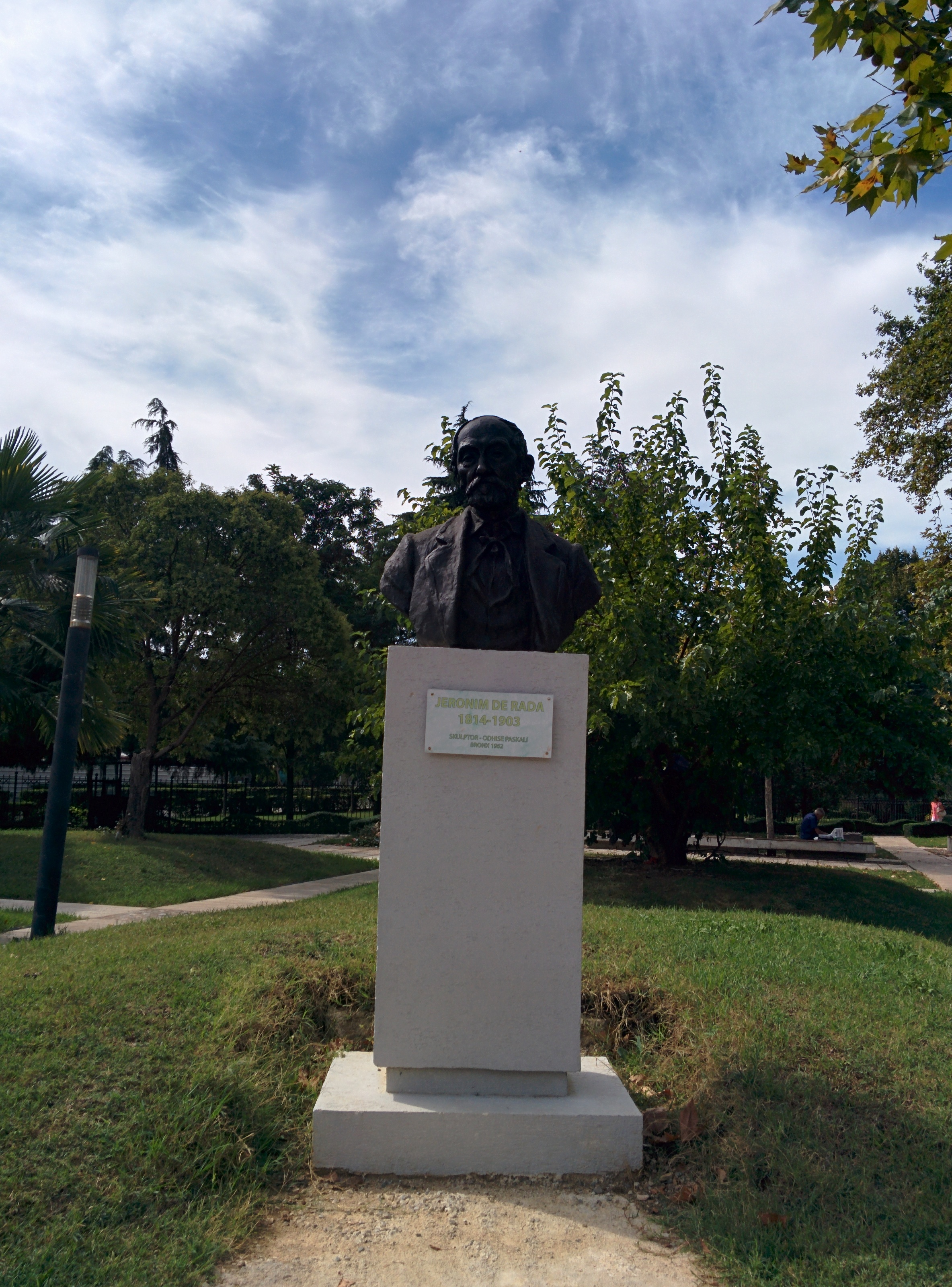 The monument of Jeronim De Rada is located in the pedestrian road near the Parliament building in the center of Tirana, Albania.